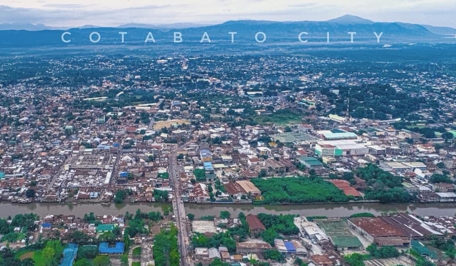 Downtown Cotabato City Skyline